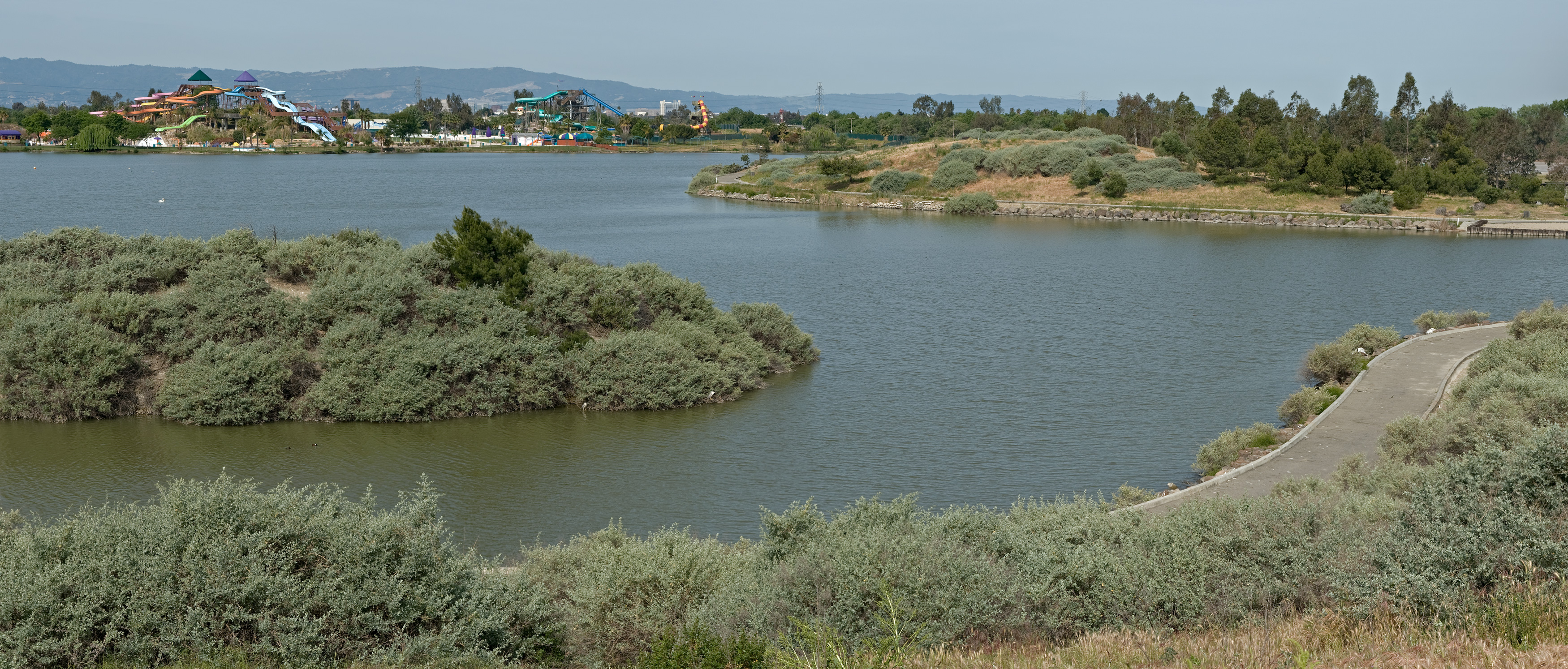 Lake Cunningham in east San Jose, California. Raging Waters theme park can be seen in the background.